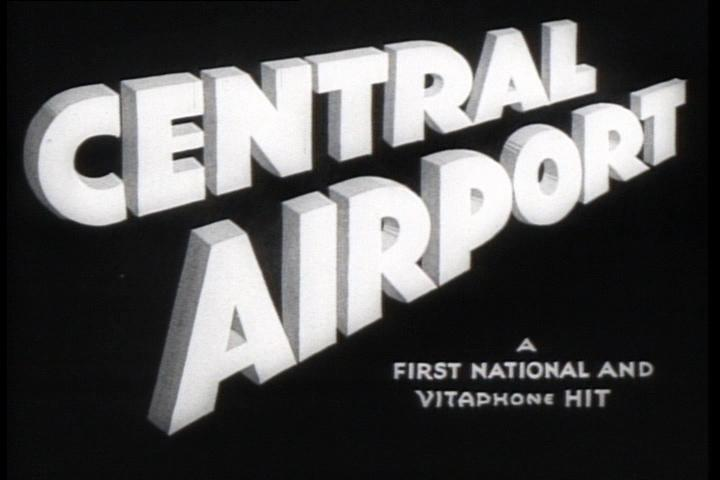 Frame from the public domain trailer for First National's 1933 film Central Airport showing the film's title in type